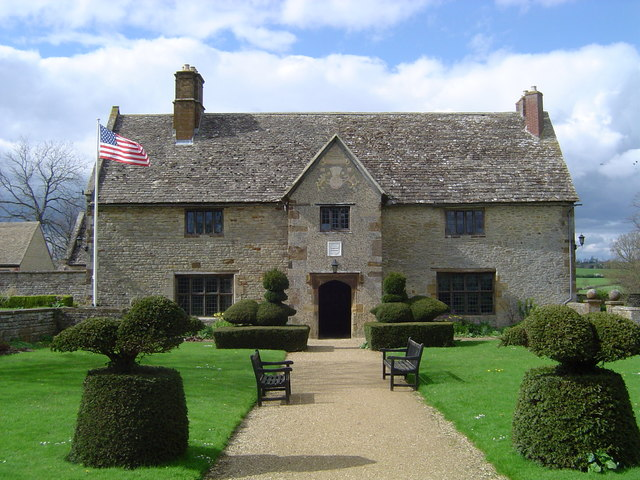 Sulgrave Manor. This was the home of the ancestors of George Washington, although much altered since they lived there. The right side of the building is the original 16th century manor house, whereas the left side was built in 1929. The Sulgrave Manor website, which has full details of the house including its history, is here